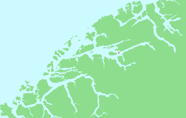 Locator map of Veøya, Møre og Romsdal, Norway